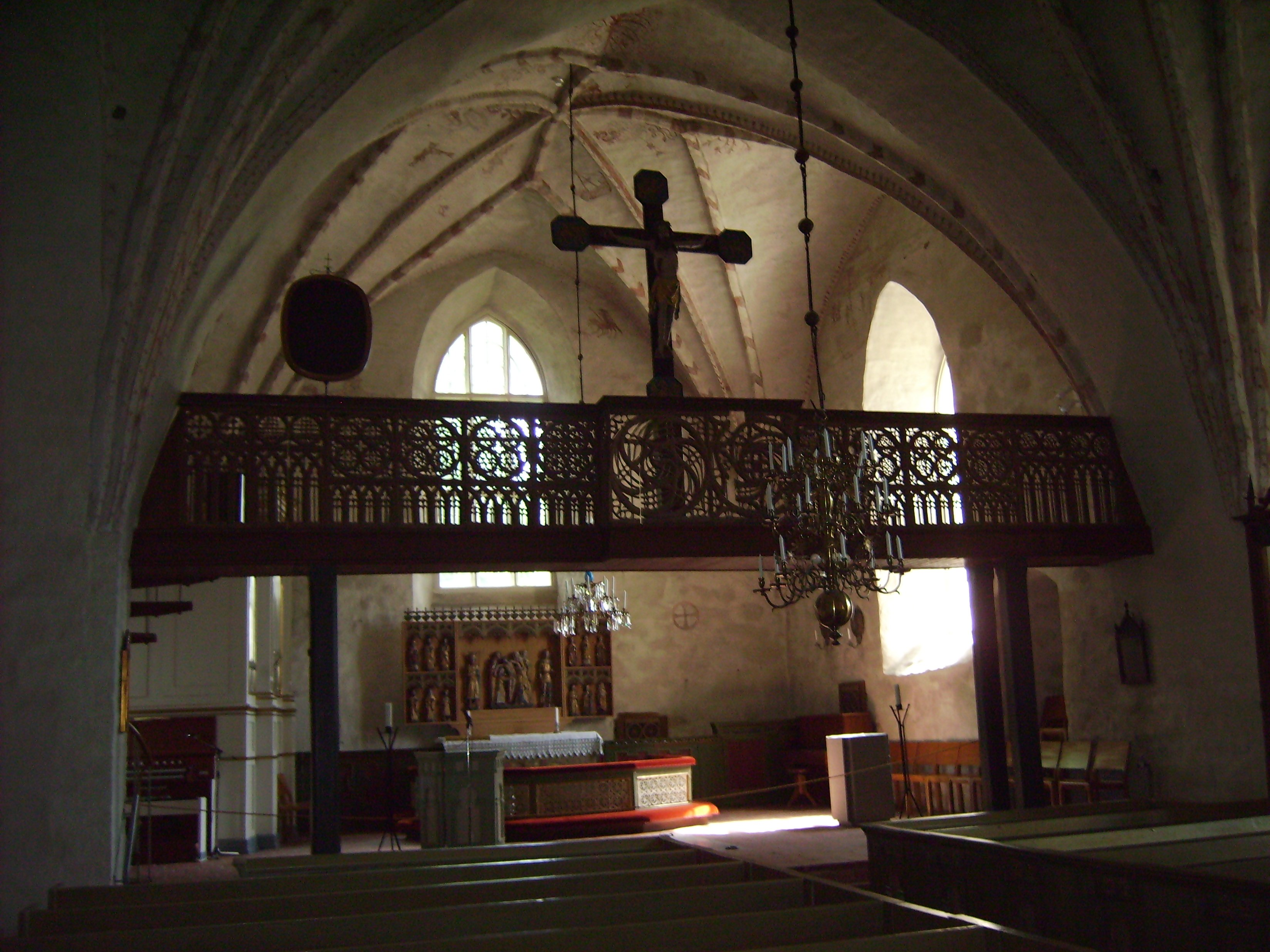 Interior of the medieval church in Korpo, Finland